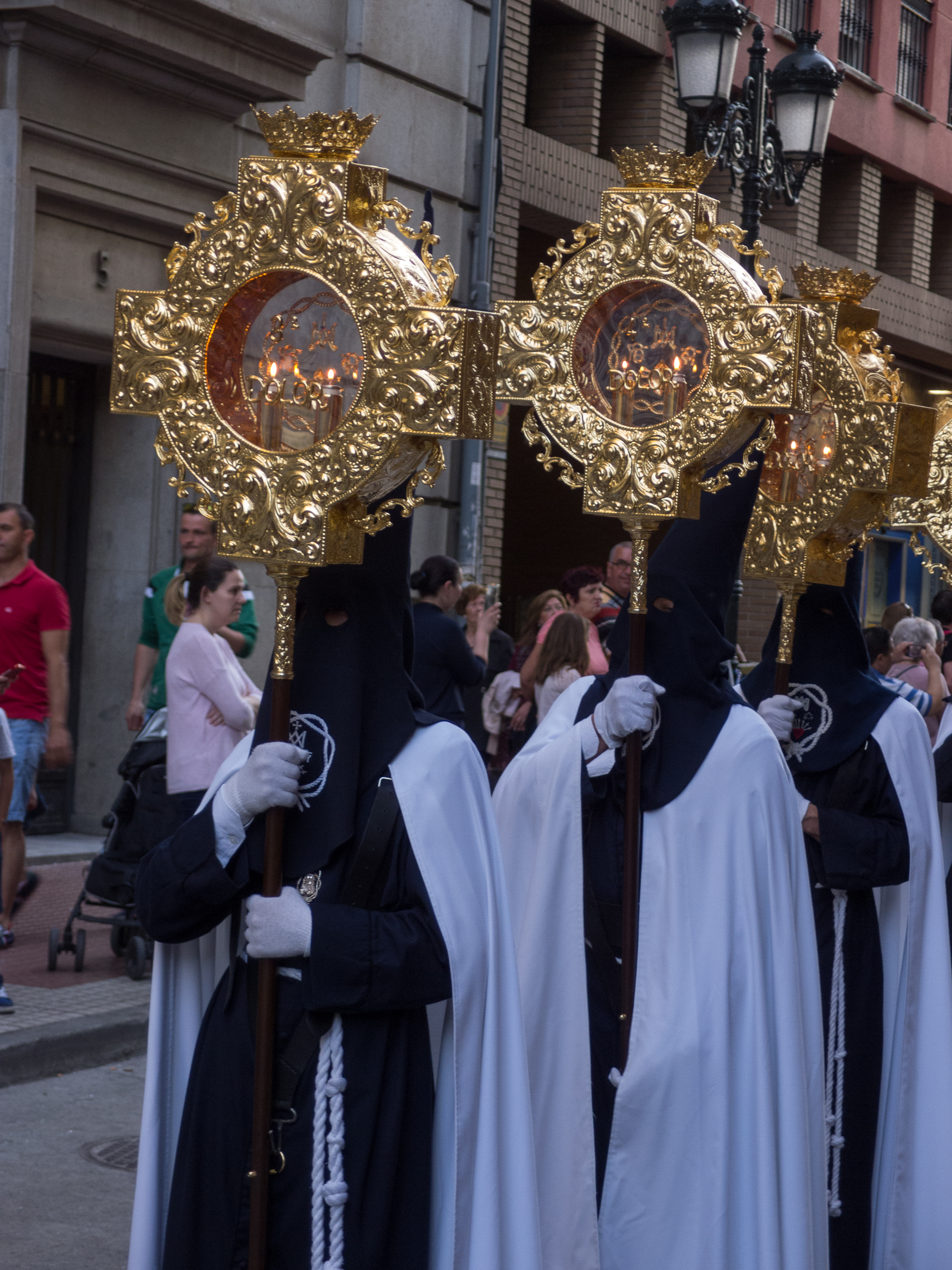 Desde la iglesia de Santo tomás de Aquino, los escolapios del Prendimiento llenaron las calles zaragozanas en la tarde del Jueves Santo. This is a photography of a Folklore festival in Spain (Wikidata id Q9075892).